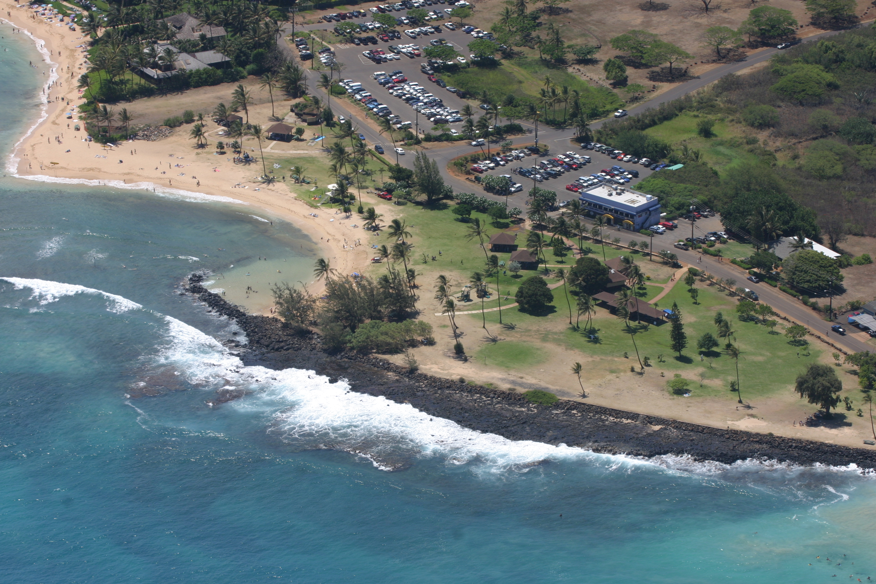 Aerial view of Poipu Beach Park on the island of Kauai, Hawaii